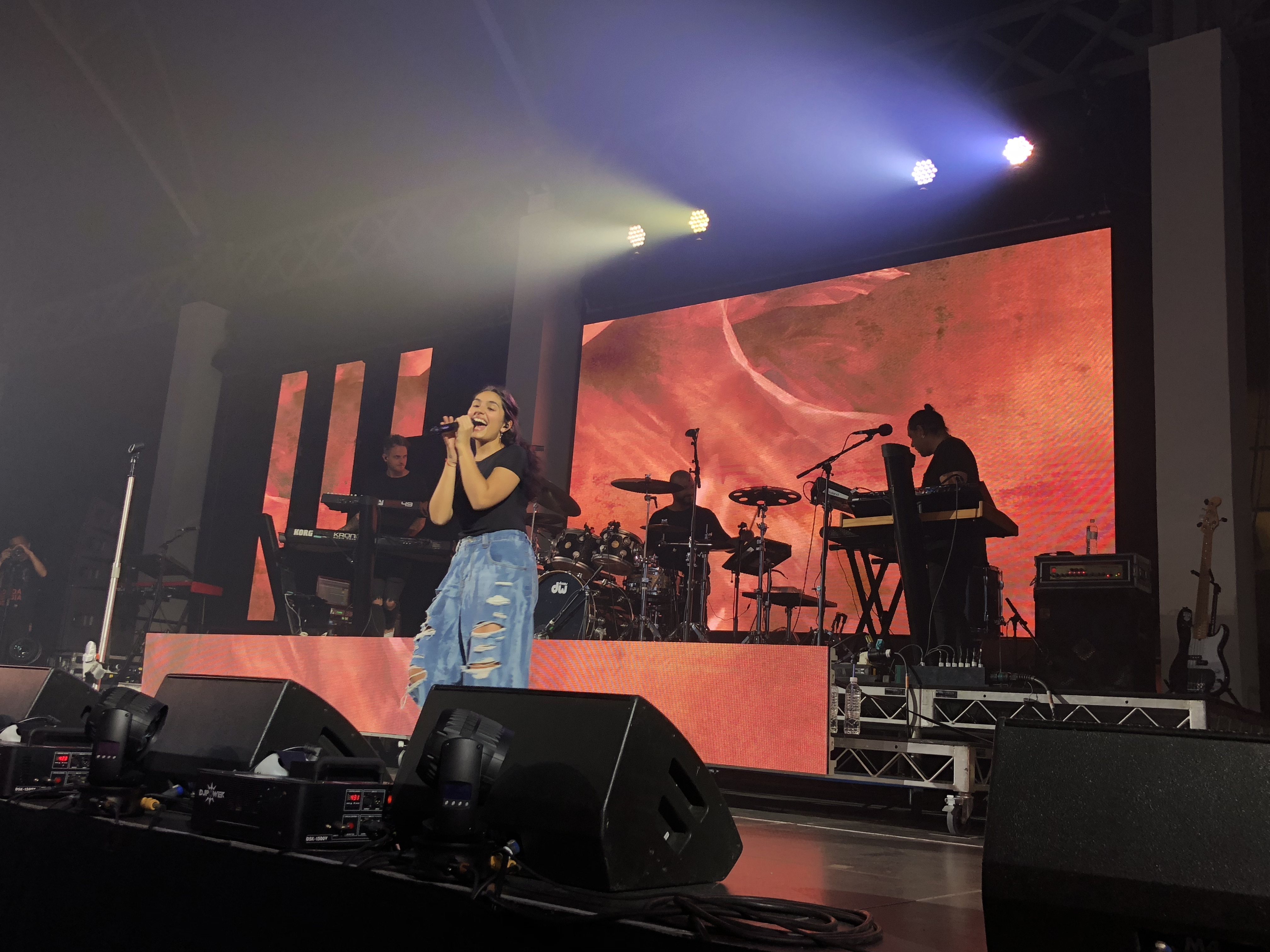 Alessia Cara performing in Sydney on August 15, 2018.